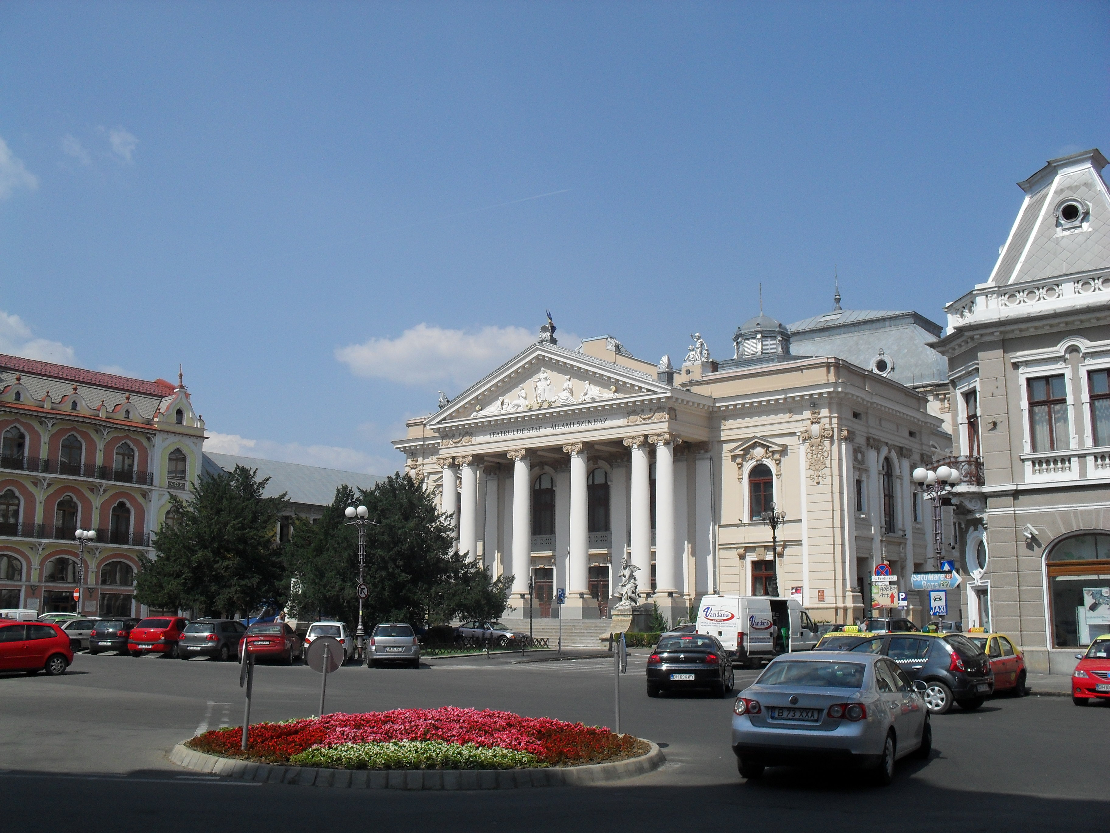 Oradea State Theatre